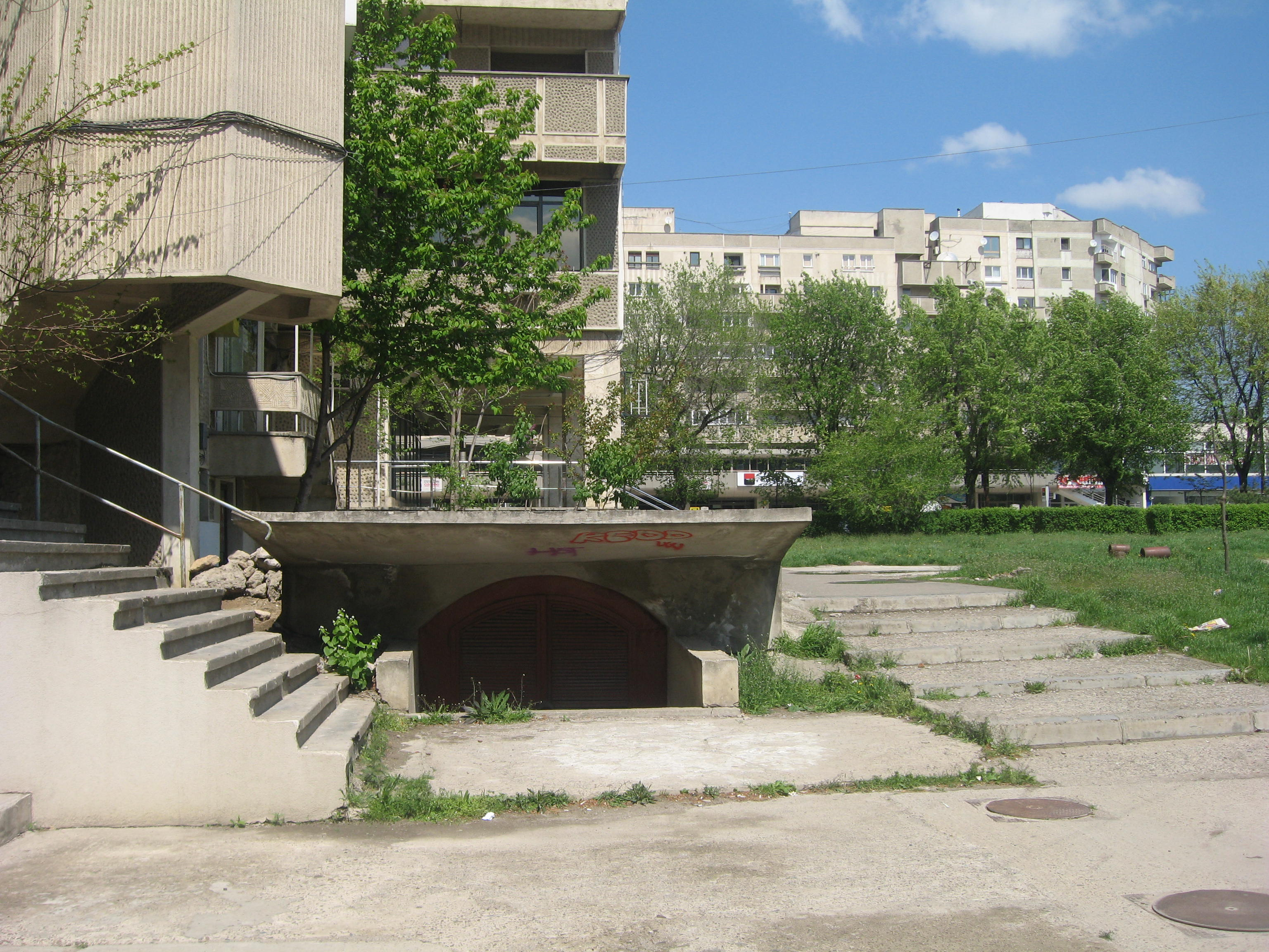 Barnovschi Church, Iași